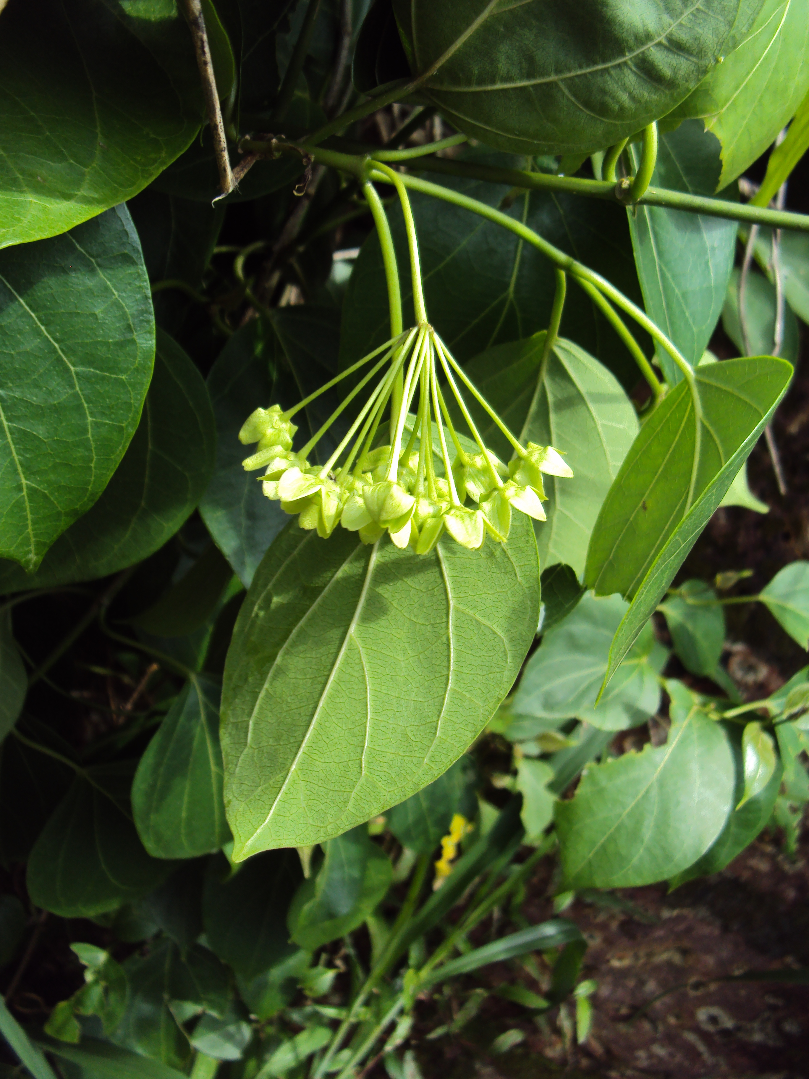 Wattakaka volubilis